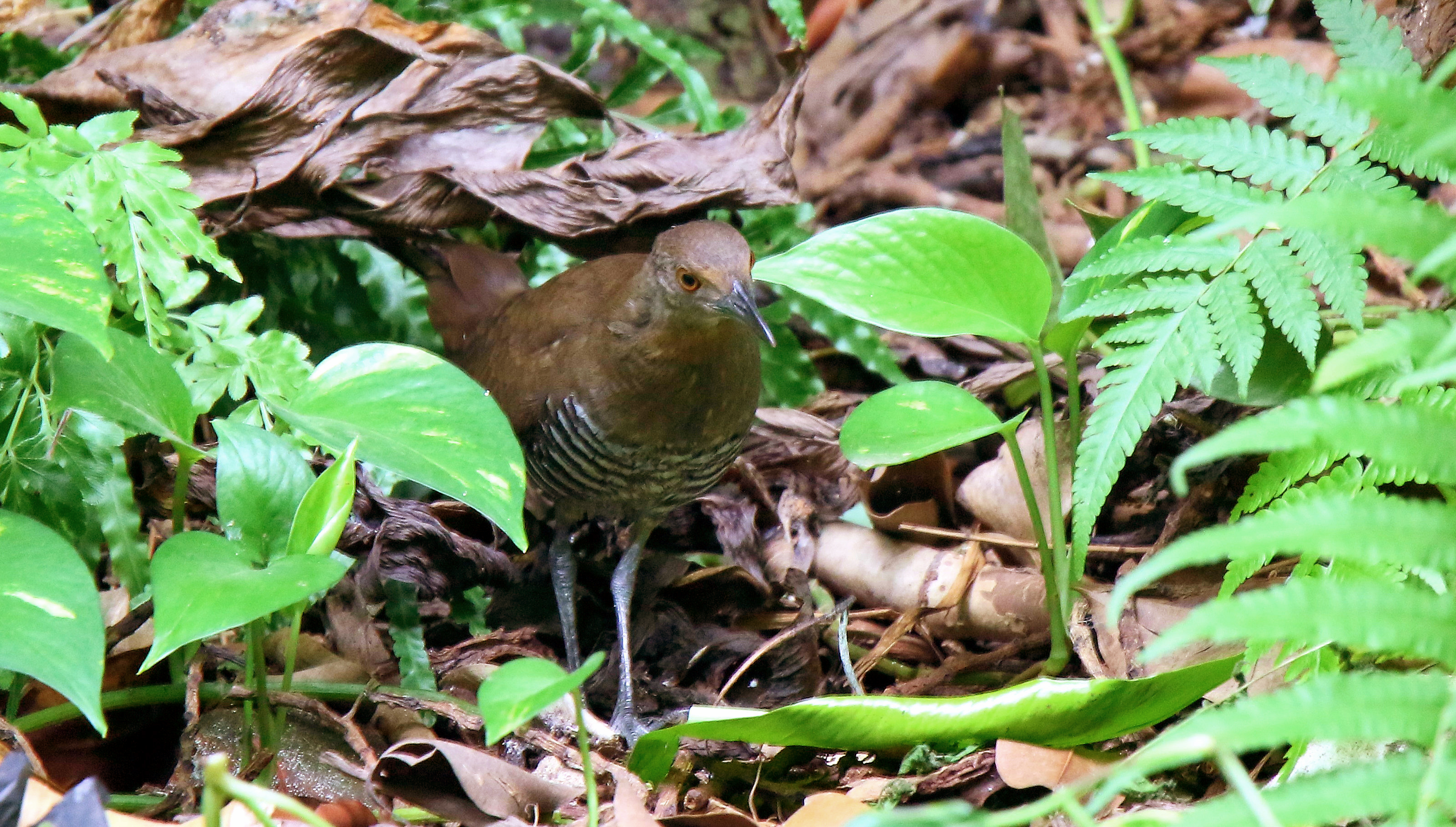 Slaty-legged Crake Rallina eurizonoides, Hanoi, Vietnam